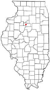 Category:Illinois_city_locator_maps Summary Location of Sparland within Marshall County and Illinois.